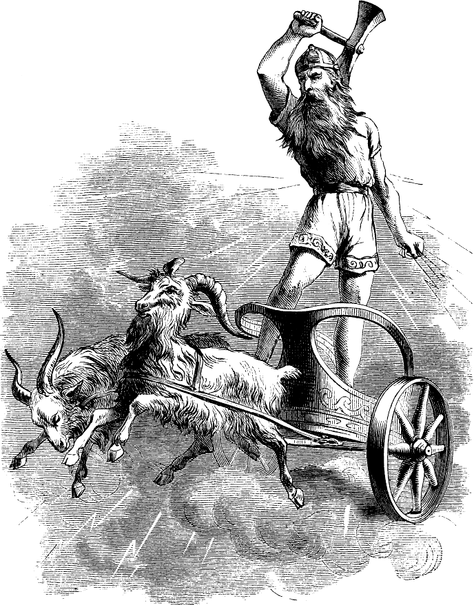 Christmas throughout Christendom Thor